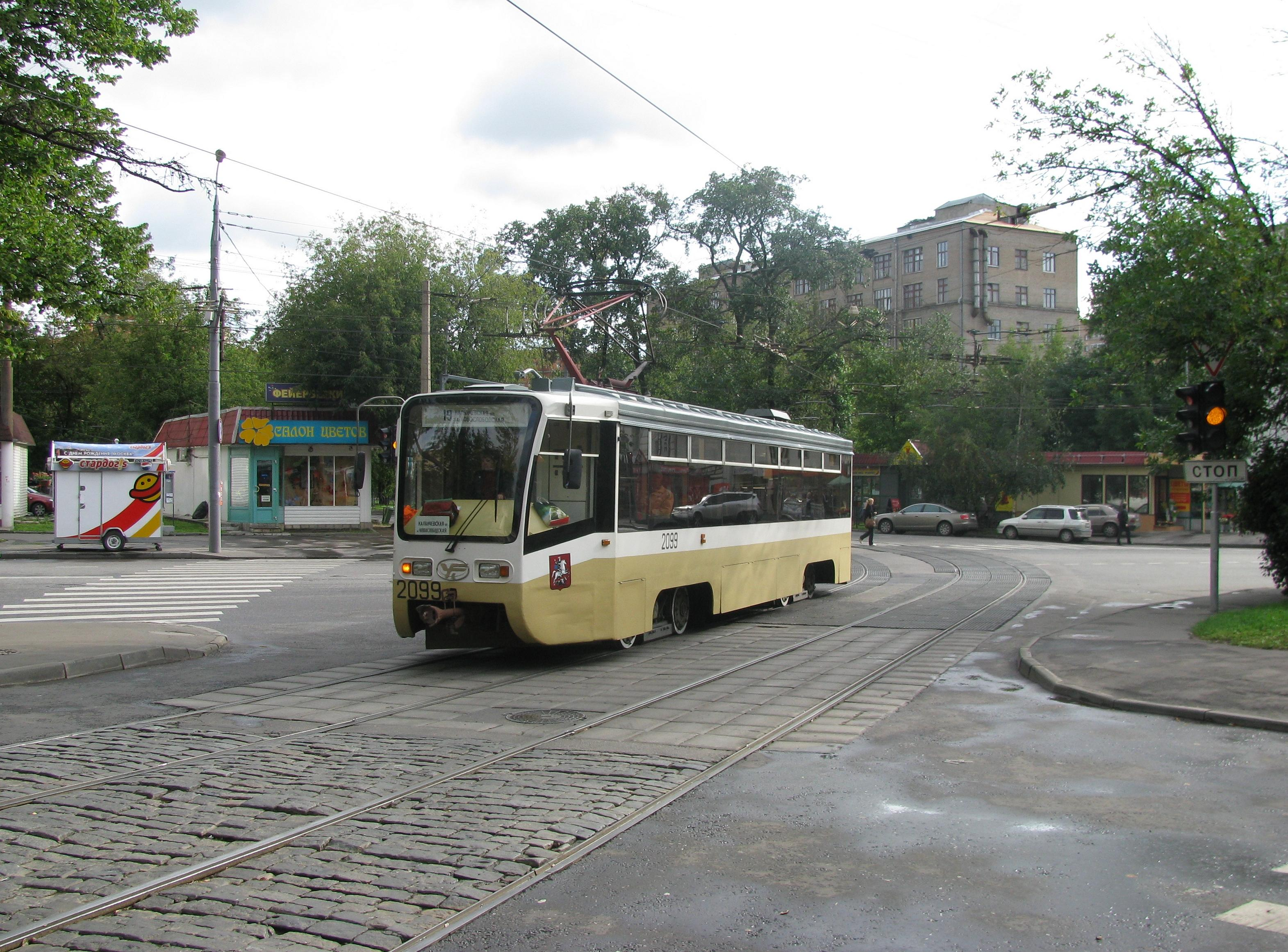 Tram KTM-19KT #2099 in Moscow.